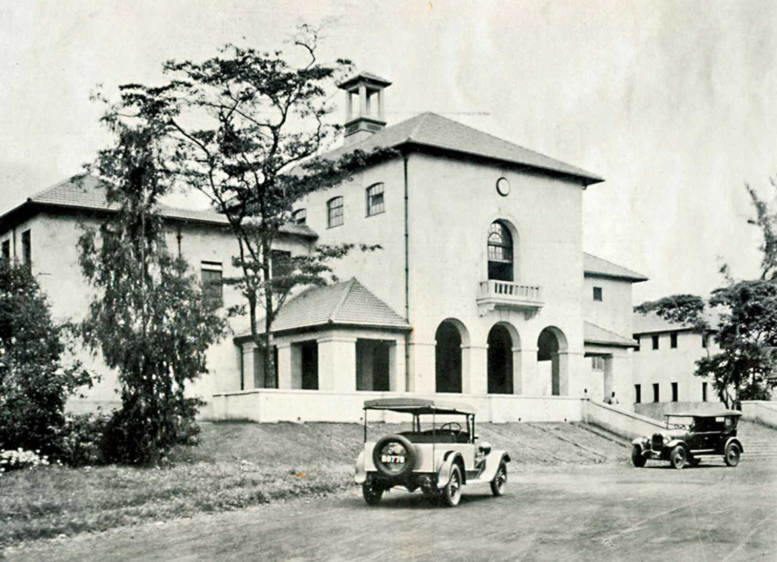 New buildings of the Nairobi European School designed by Sir Herbert Baker.